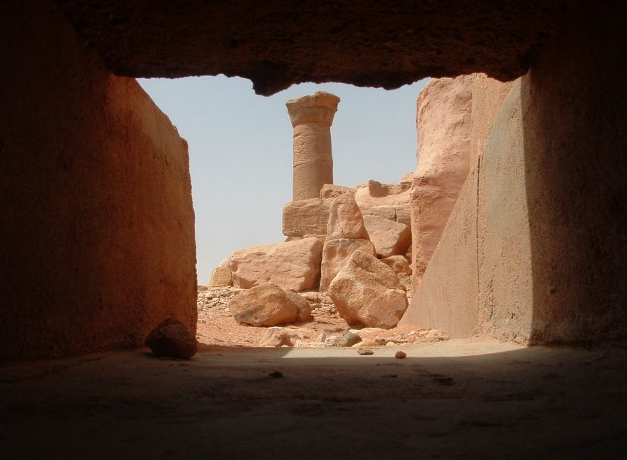 Pylon of temple in Mussawarat en Sufra, Sudan